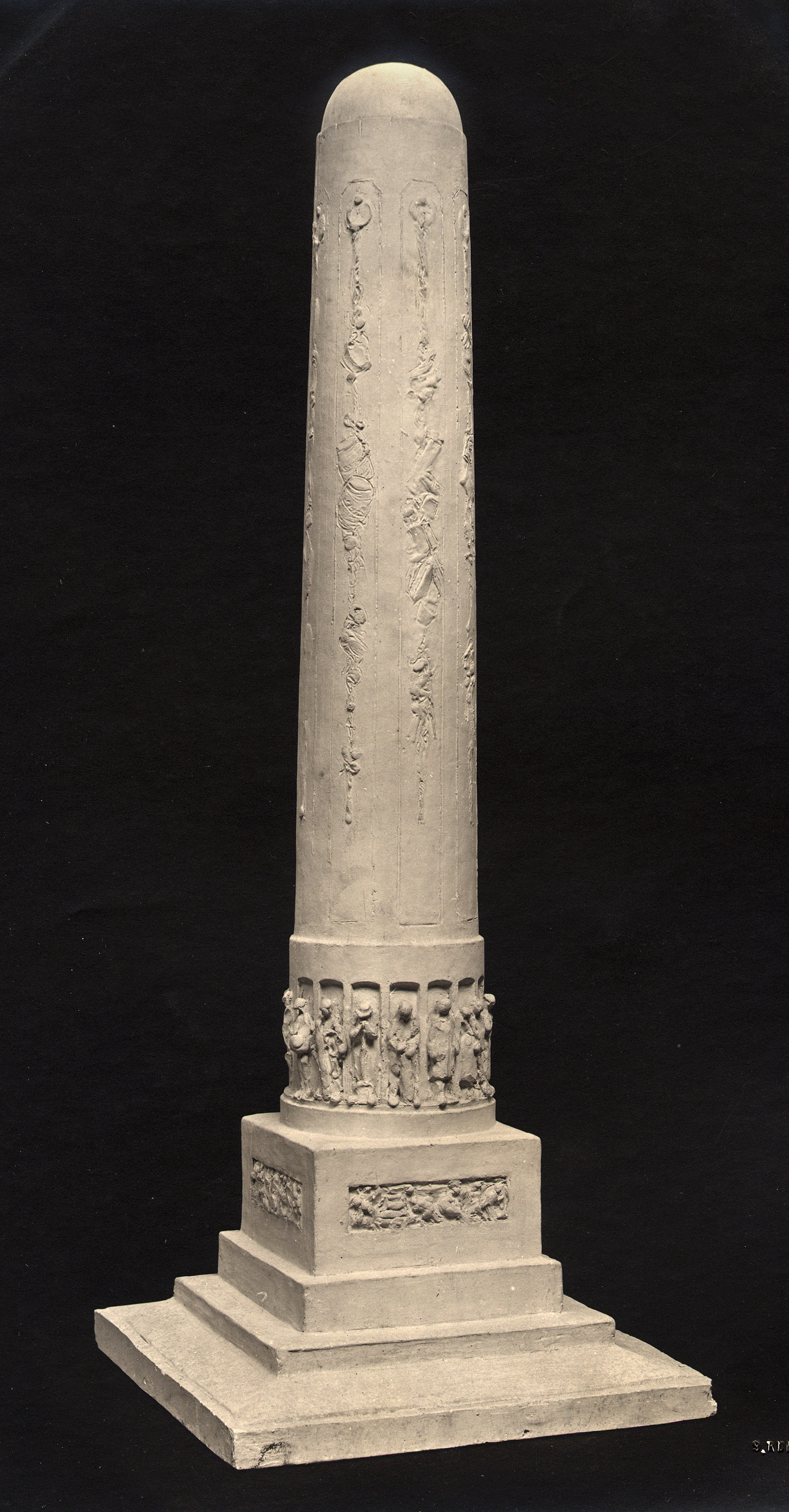 Squetch for the projected Monument to Labour by Jules Dalou, plaster, Musée du Petit Palais, Paris.